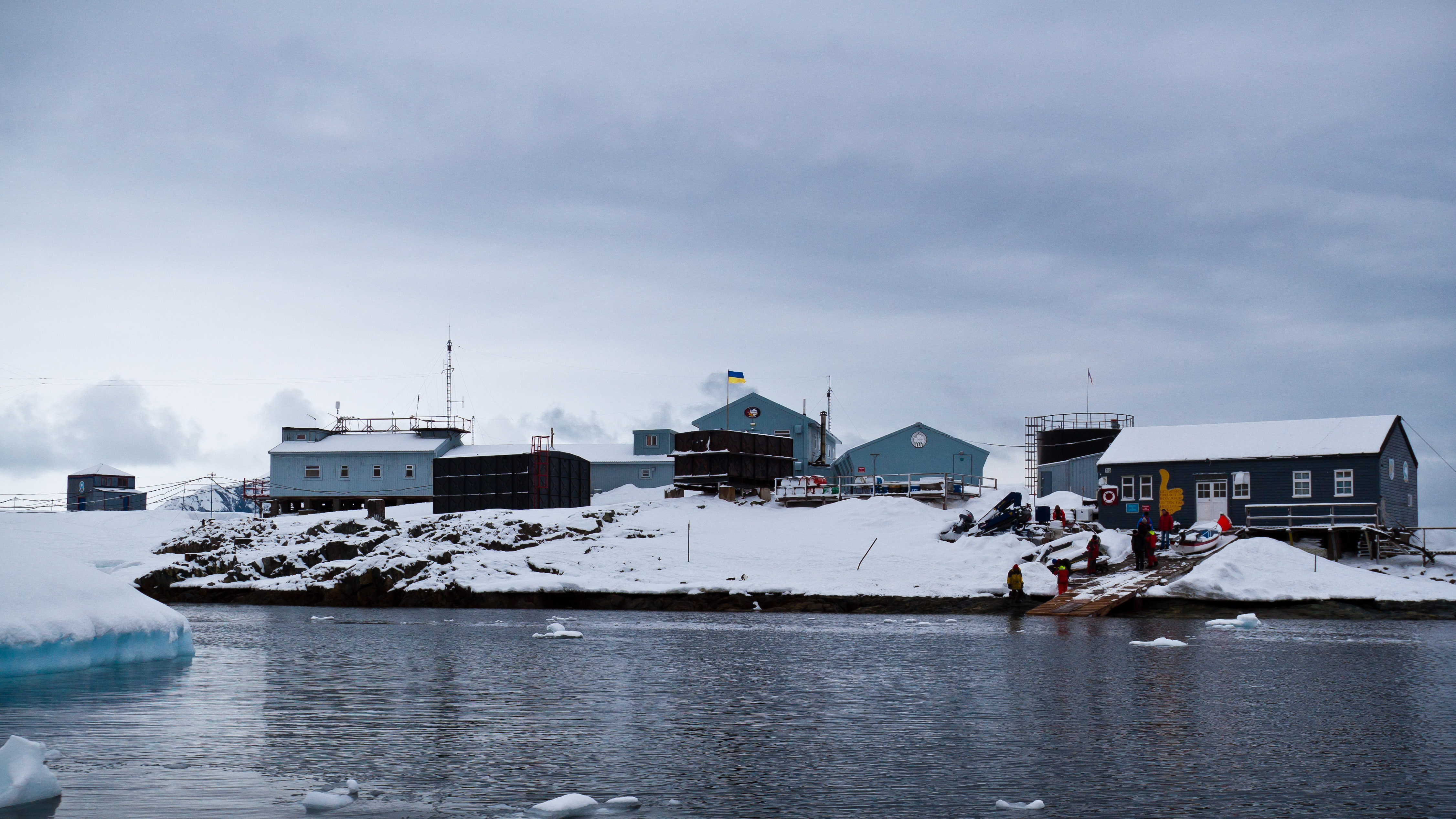 Vernadsky Research Base (Ukrainian: Академік Вернадський; Akademik Vernadsky) is a Ukrainian Antarctic Station at Marina Point on Galindez Island in the Argentine Islands, Antarctica.